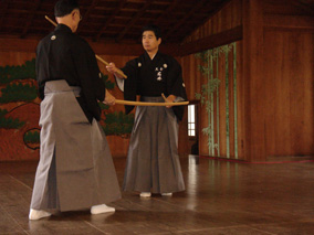 Demonstration of Niten Ichi Ryu at the at the new year's ceremony in the Usa shinto shrine, in Oita Prefecture, Japan